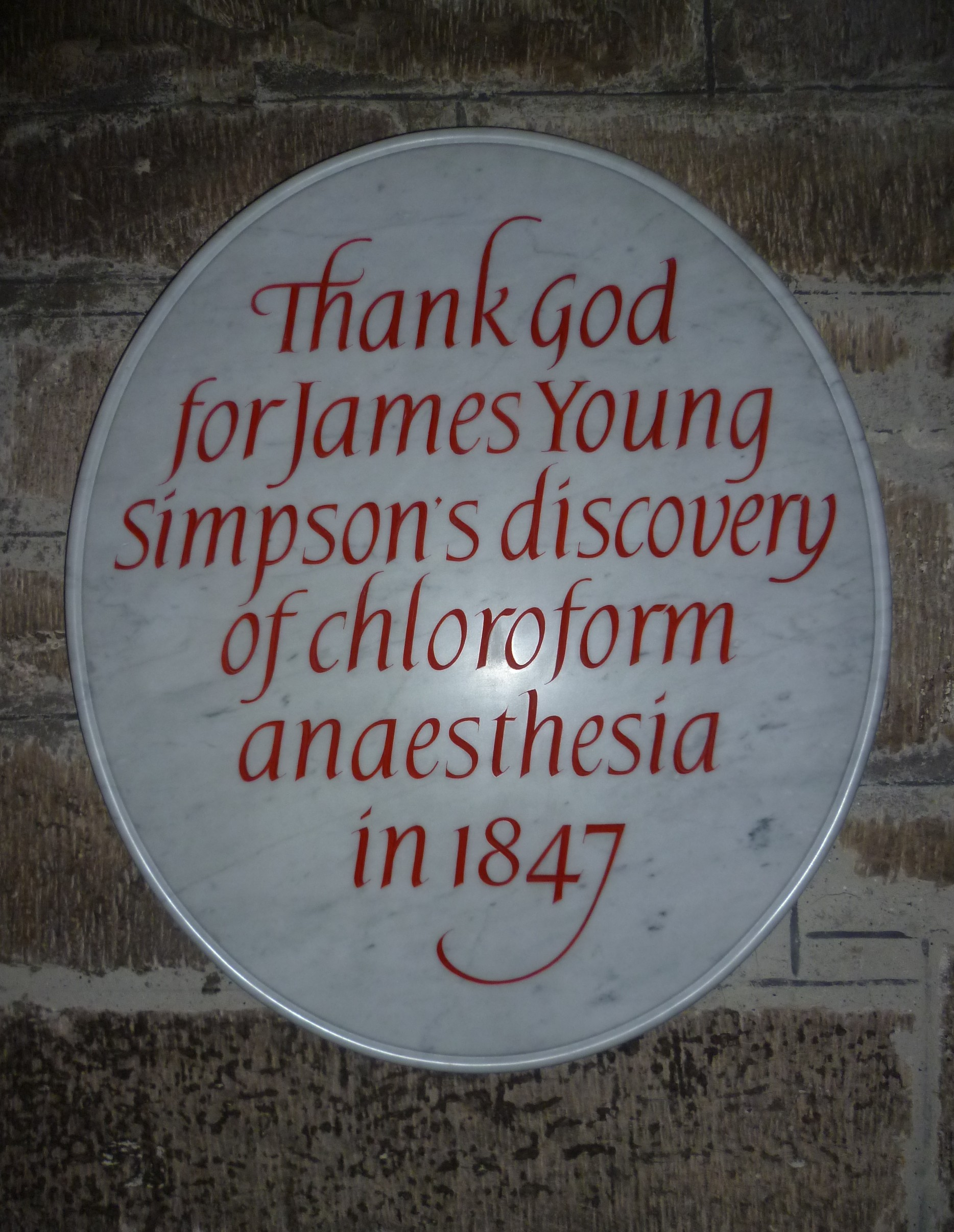 A sentiment that must have echoed in the minds of thousands of Victorian women who were finally spared the worst pains and terrors of childbirth.